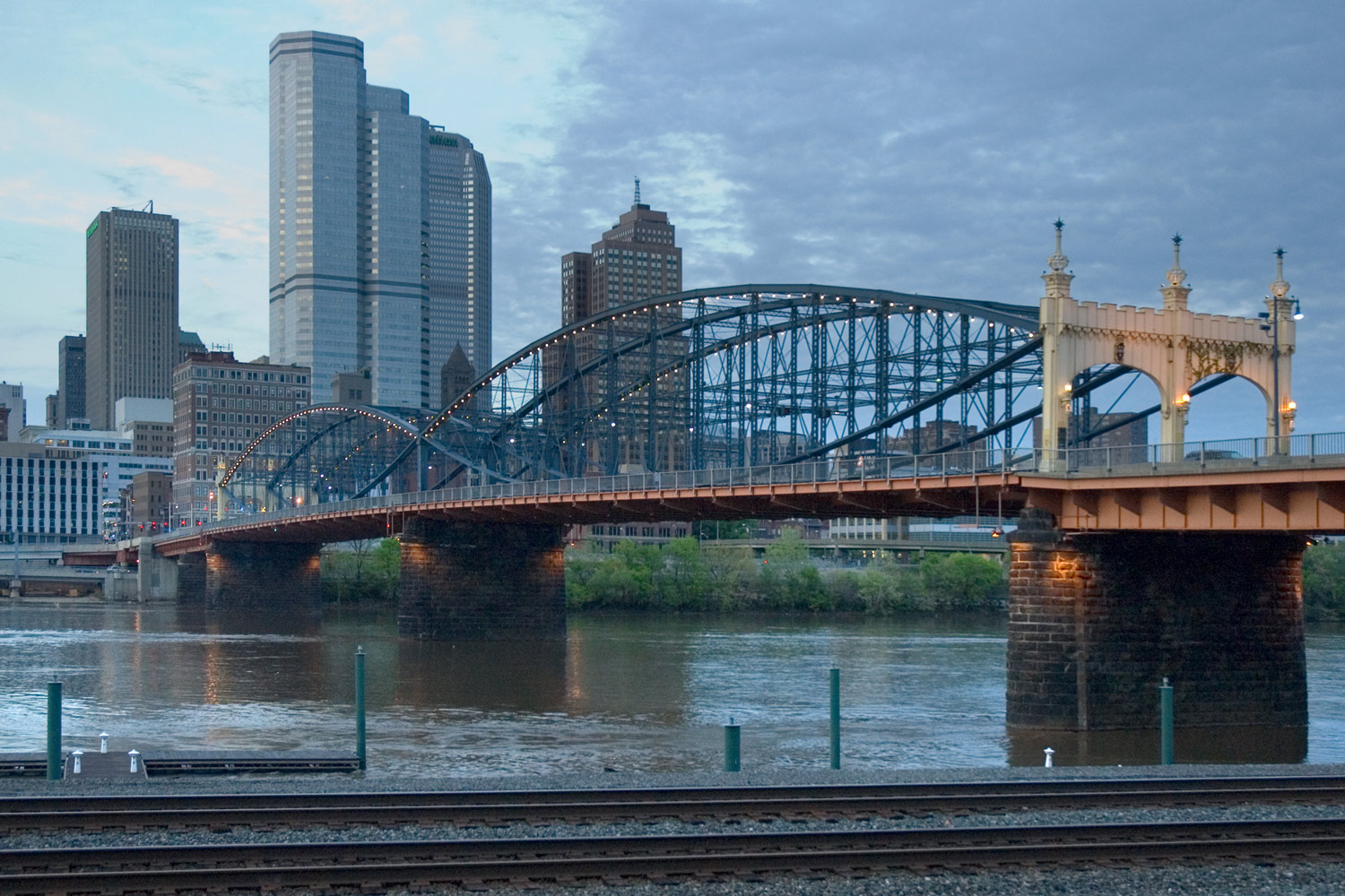 The Smithfield Bridge in Pittsburgh PA at dusk. Photo by Chuck Szmurlo taken May 4,→ 2009 using a Nikon D70 and a Nikon 18-70 lens.